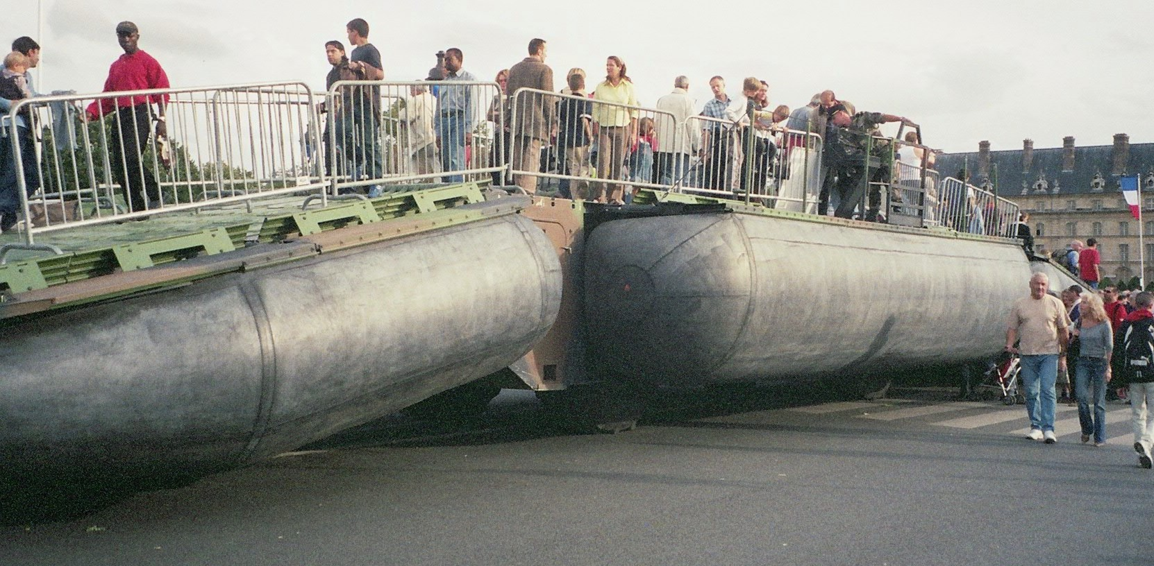 Nation/Defense days, Esplanade des Invalides, Paris, France, September 24-25, 2005: EFA mobile bridge